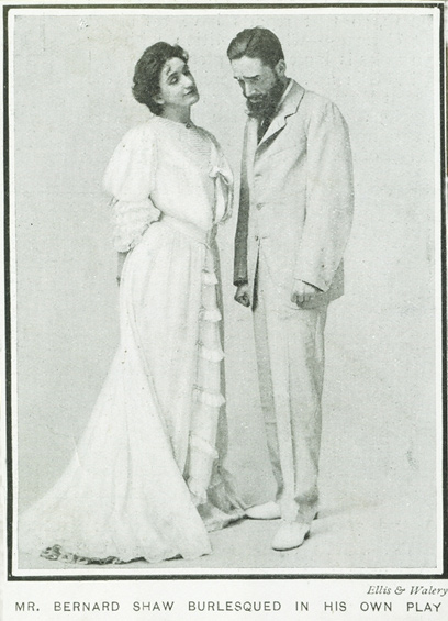 Harley Granville Barker as John Tanner and Lillah McCarthy as Ann Whitefield in Man and Superman by George Bernard Shaw, Royal Court Theatre, London, 1905, photograph by Alfred Ellis, 20 Upper Baker Street, London, active 1884-1899, published in an unidentified periodical.